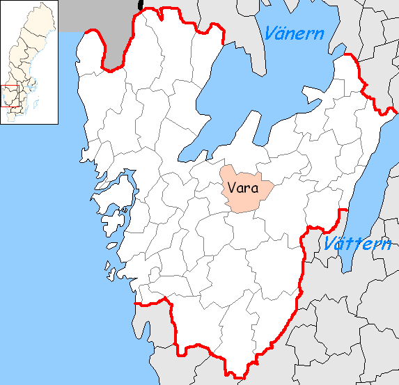 Vara Municipality in Västra Götaland County Designed by me. Mere outlines are a PD source from